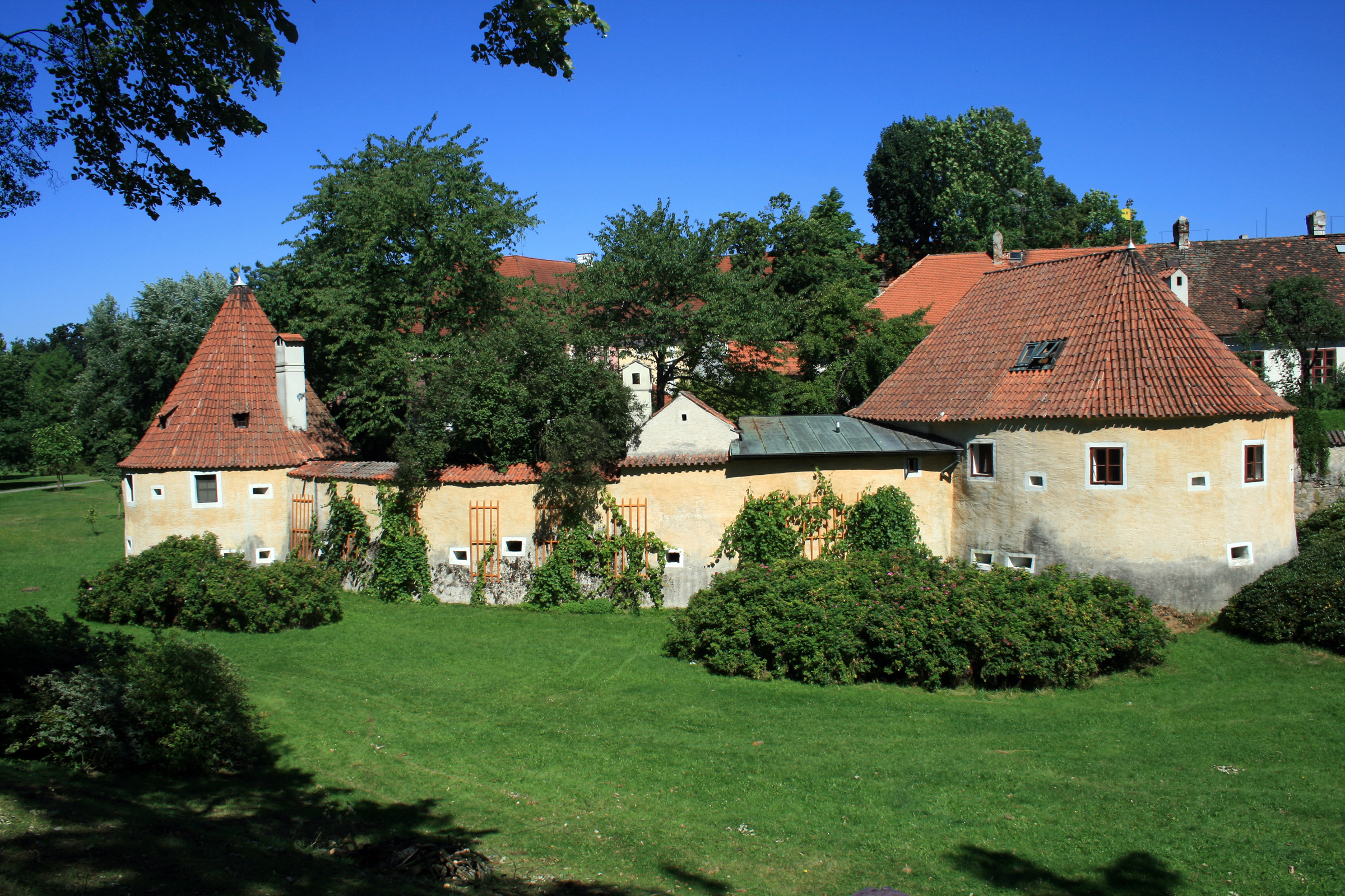 Old fortification of Třeboň, South Bohemia, Czech Republic